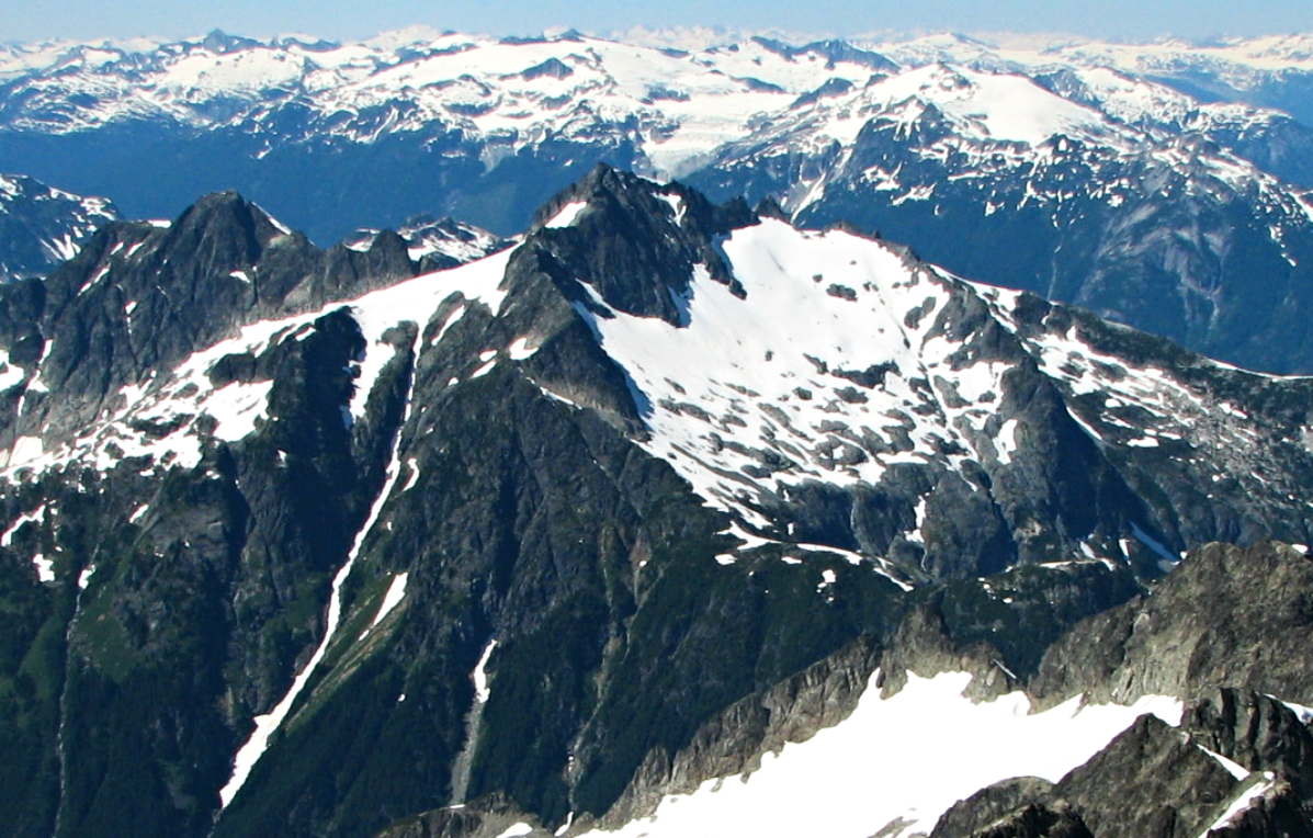 The south aspect of Pelion Mountain as seen from Mount Tantalus in Canada